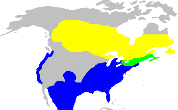 Approximate distribution map of the White-throated Sparrow (Zonotrichia albicollis). Yellow indicates the summer-only range, blue indicates the winter-only range, and green indicates the year-round range of the species.